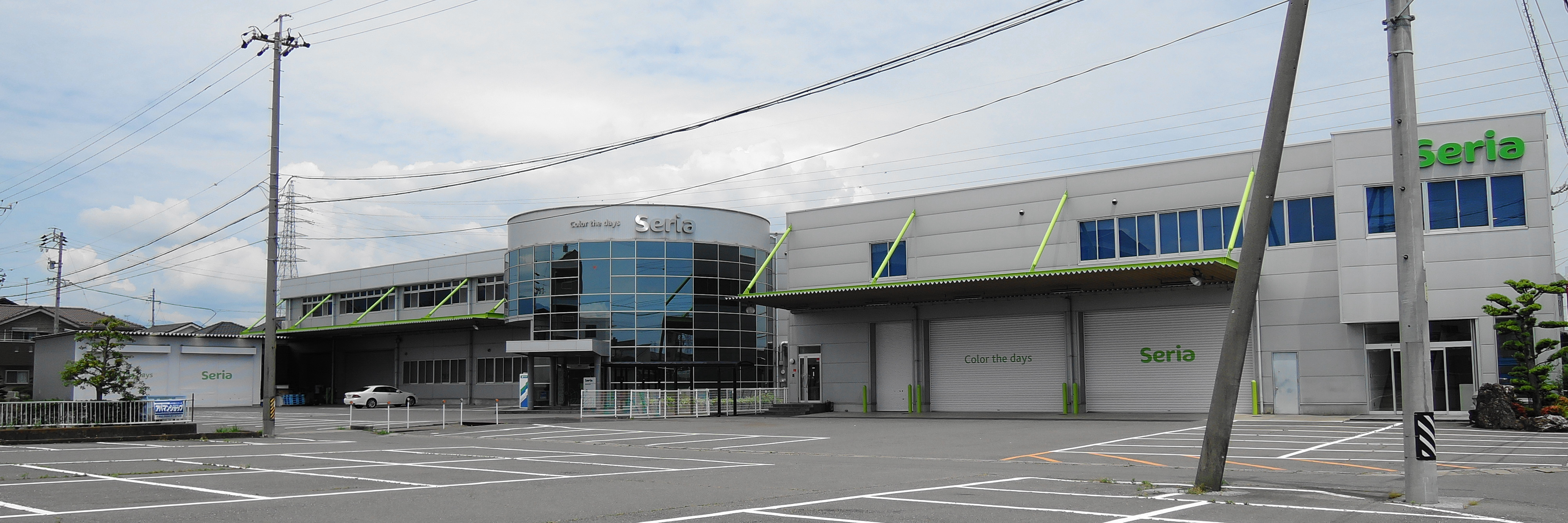 Headquarters of Seria Co., Ltd. ,Ogaki, Gifu prefecture,Japan